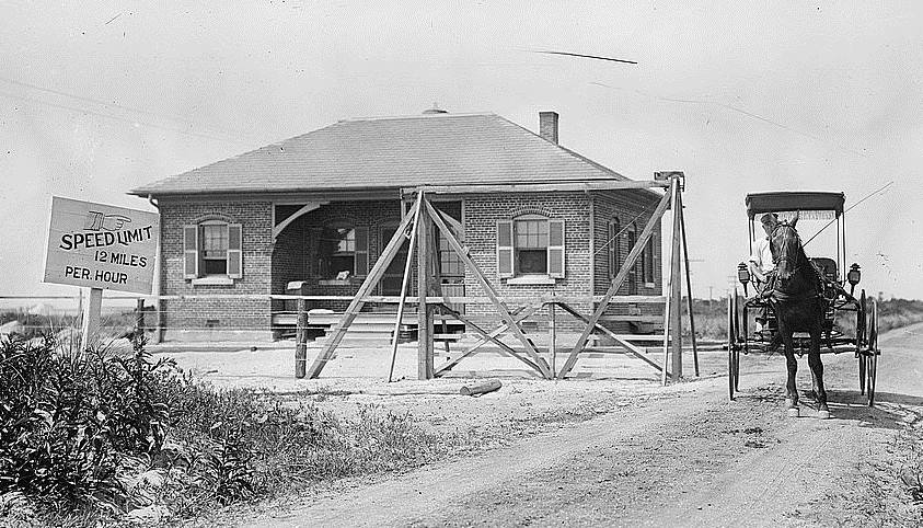 Entrance to Sandy Hook proving ground in 1911 (LOC) Bain News Service,, publisher. Entrance to proving ground, Sandy Hook [between ca. 1910 and ca. 1915] 1 negative : glass ; 5 x 7 in. or smaller. Notes: Title from unverified data provided by the Bain News Service on the negatives or caption cards. Forms part of: George Grantham Bain Collection (Library of Congress). Format: Glass negatives. Repository: Library of Congress, Prints and Photographs Division, Washington, D.C. 20540 USA, General information about the Bain Collection is available at Persistent URL: Call Number: LC-B2- 2293-11